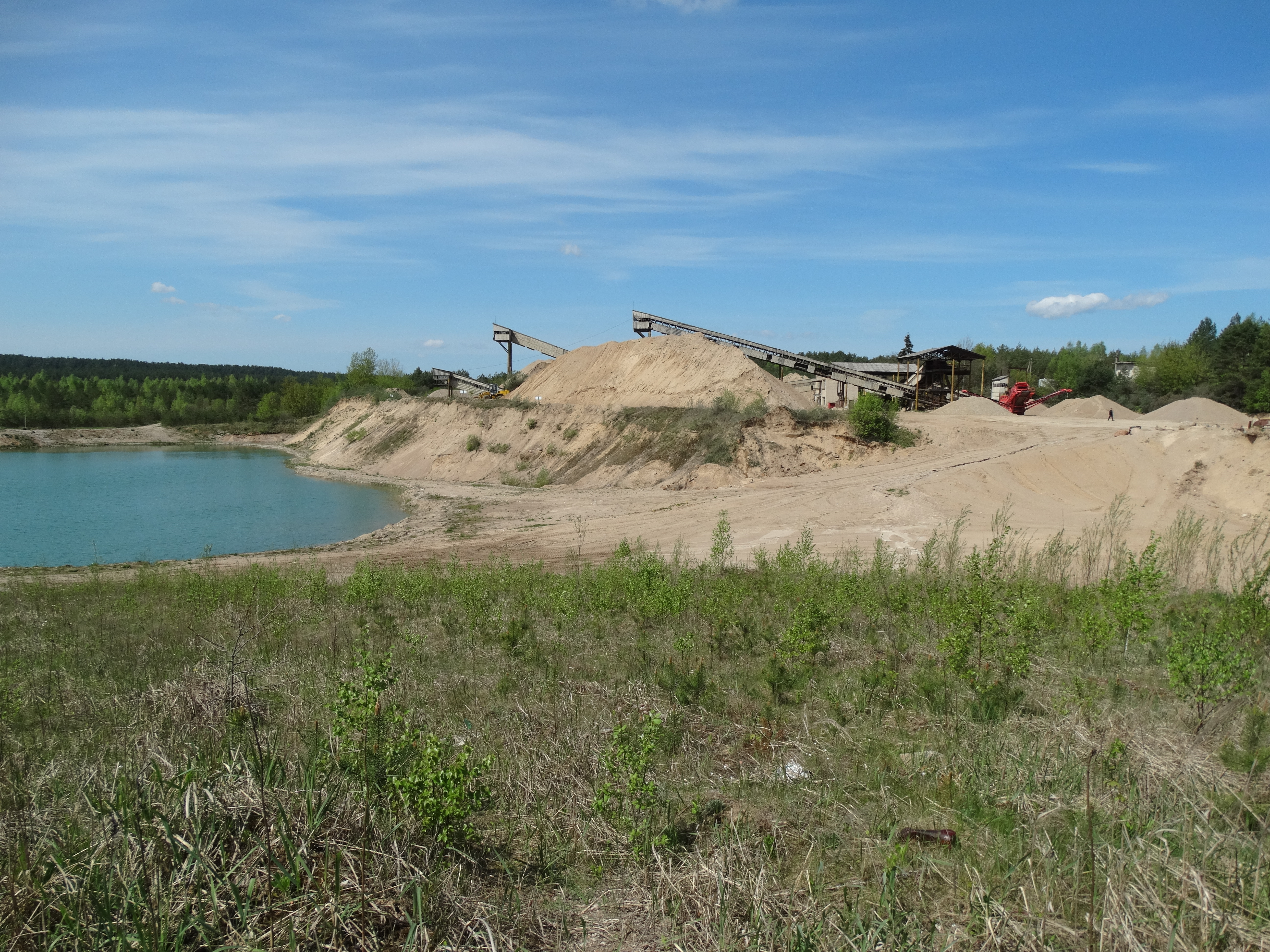 Gravel quarry, Verkšionys, Vilnius District, Lithuania